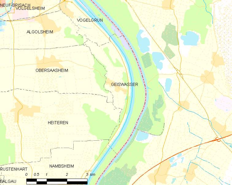 Map of French municipality